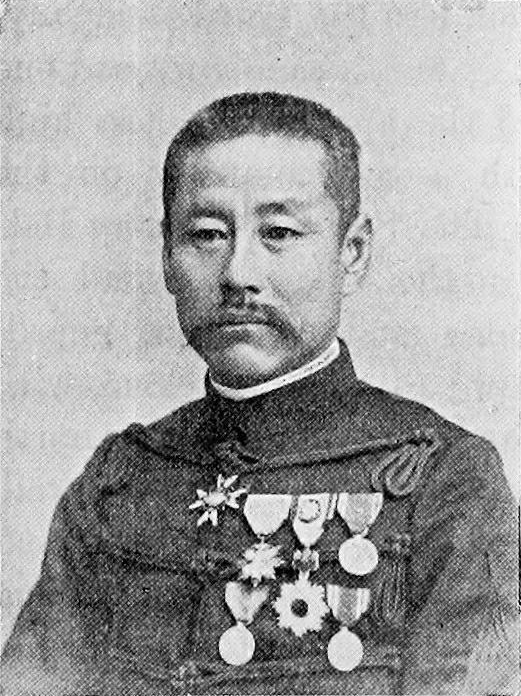 Major Saito Taro, Commander of the 2nd BAttalion 15 Regimenti